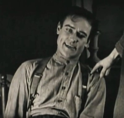 Warner Richmond in Tol'able David - cropped screenshot